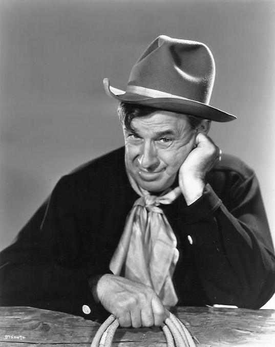 Publicity photo of Will Rogers